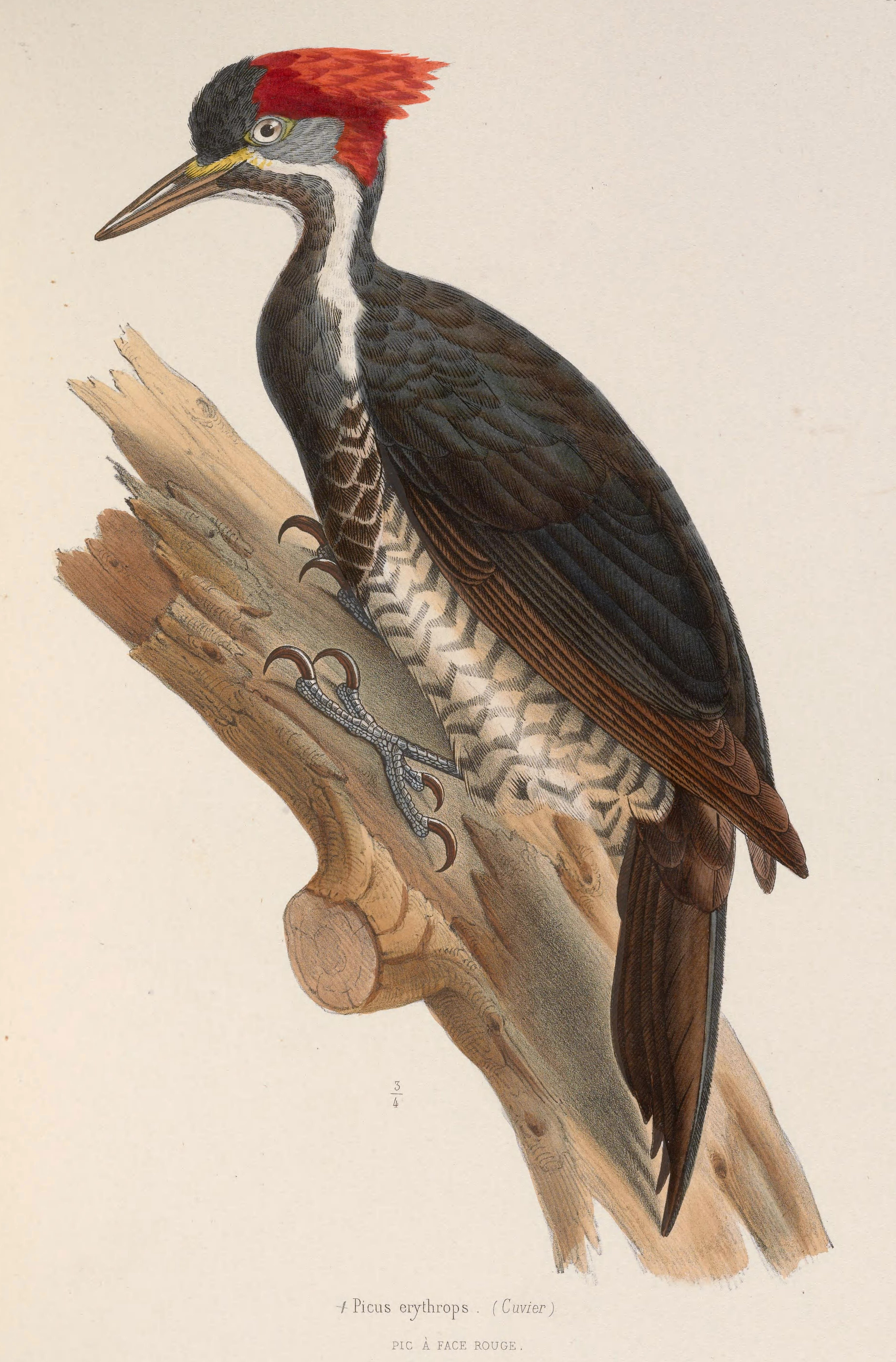 Picus erythrops = Dryocopus lineatus erythrops (Subspecies of Lineated Woodpecker)